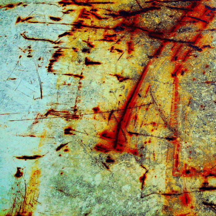 Rusty